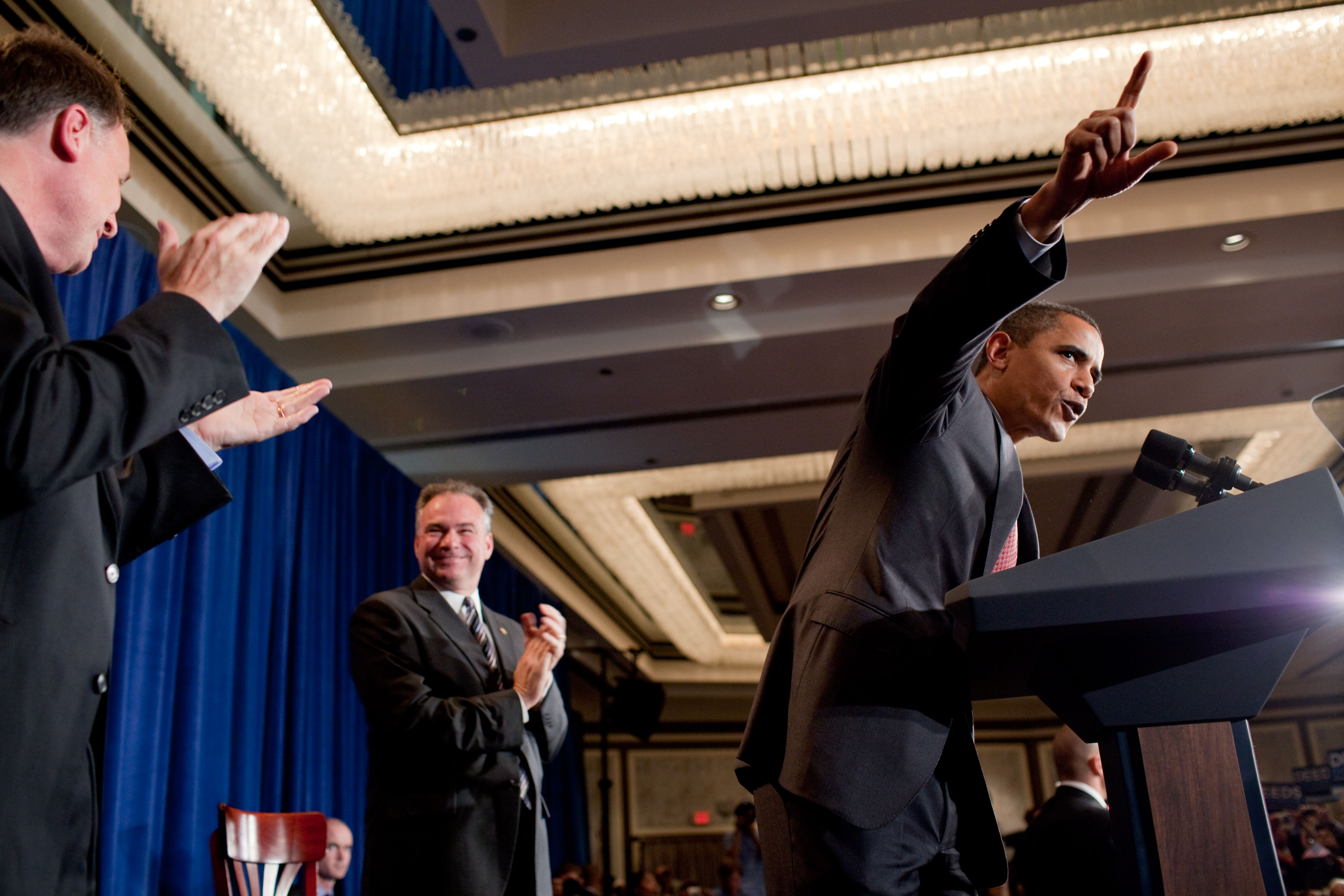 President Barack Obama speaks at a campaign rally for gubernatorial candidate Creigh Deeds, left, in Tyson's Corner Va., on Aug. 6, 2009. Current Virginia Gov. Tim Kaine is at right in background. (Official White House Photo by Pete Souza)